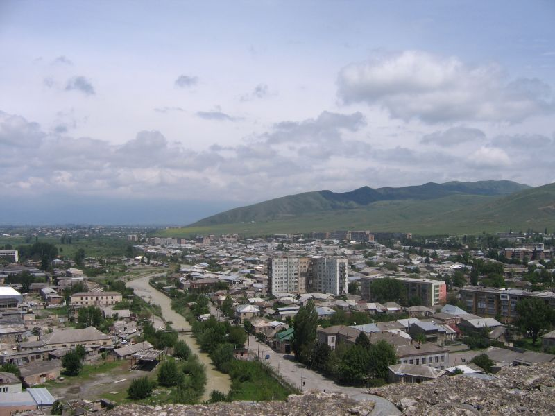 View from Gori Fortress approximately to NNE, upstream Mejuda River and over the city of Gori, Georgia